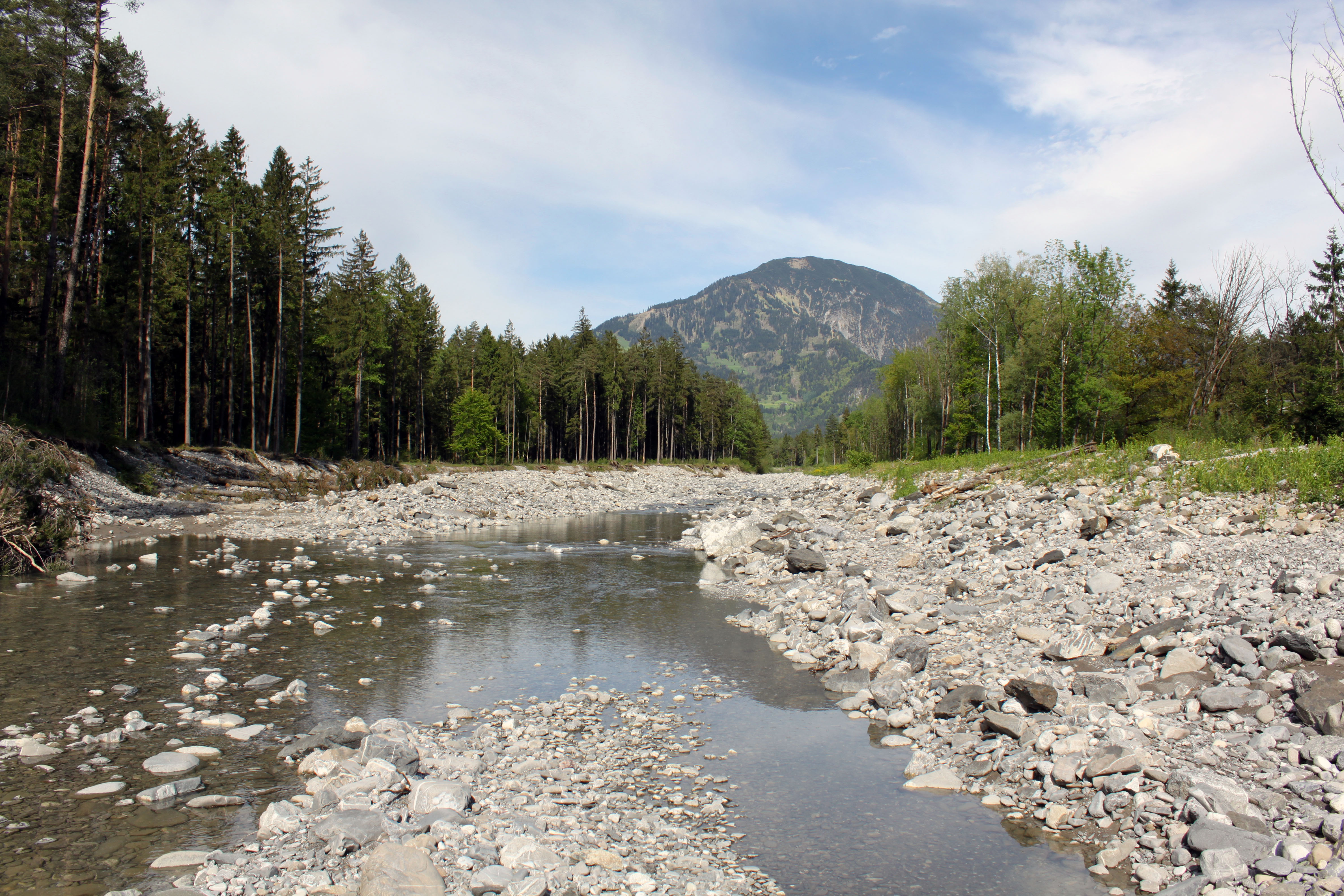 The river Lutz near the place where it connects with the Ill and with the "Hoher Fraßen" in the background (looking east).